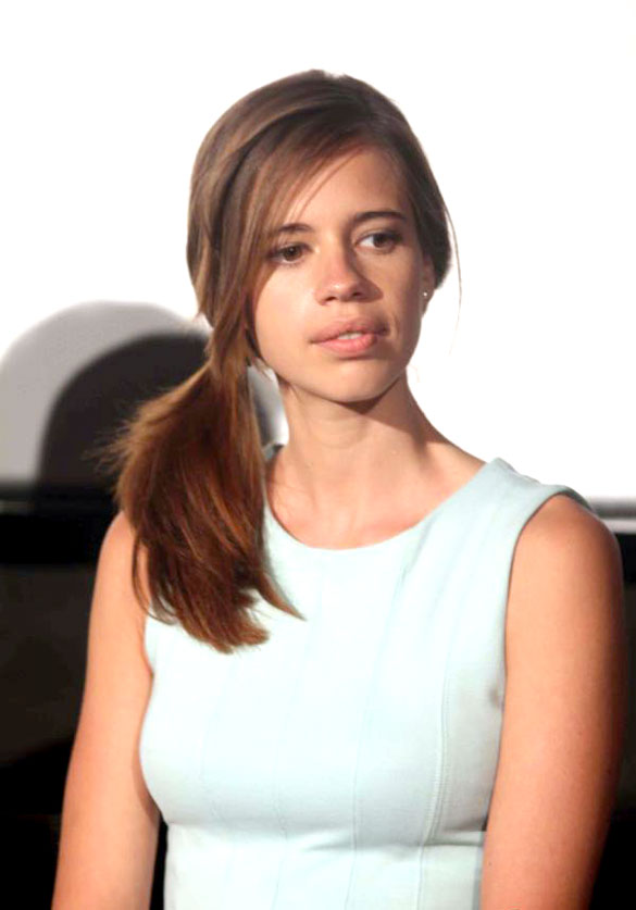 Kalki Koechlim from the first look of 2012 Hindi film Shanghai.